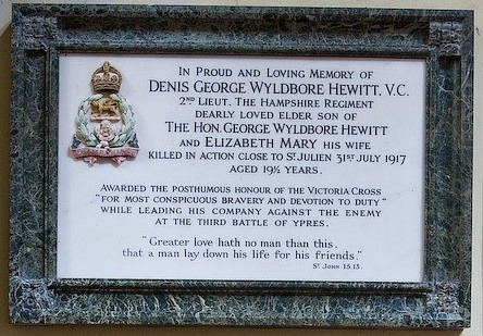 Monument in All Saints' parish church, Hursley, Hampshire, in memory of 2nd Lieut Dennis George Wyldbore Hewitt VC, Hampshire Regiment. He was killed in action near St Julien in Belgium on 31 July 1917 aged 19.